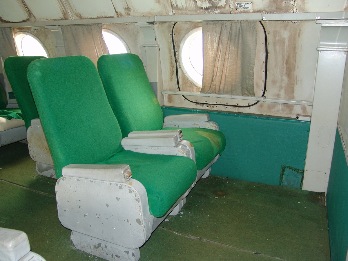 Unfortunately the cabin of this very interesting VIP configured Tu-104 is in a sad condition as you can see.